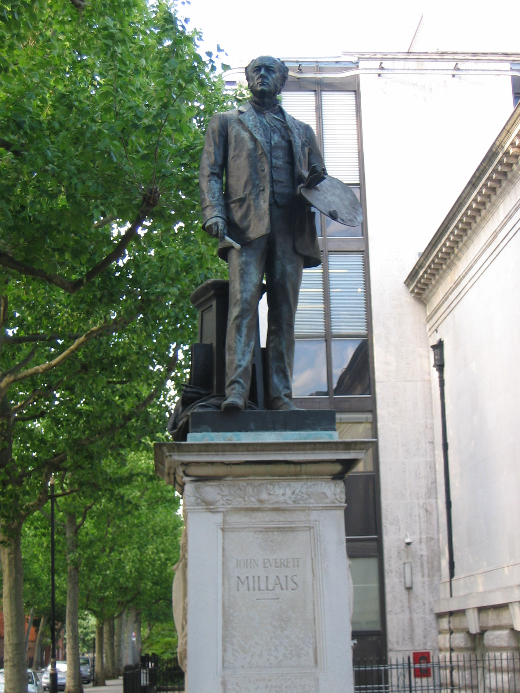 Millais' memorial in London